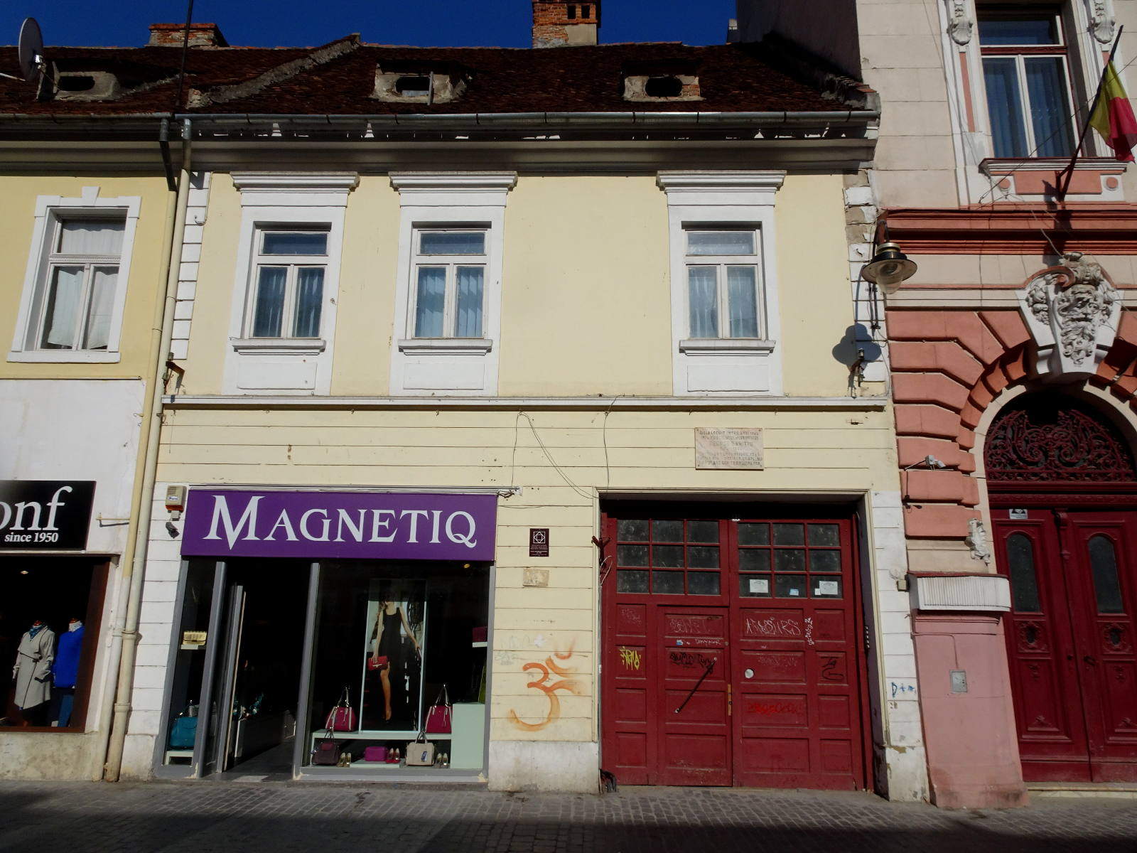 House on Republicii street, Brașov